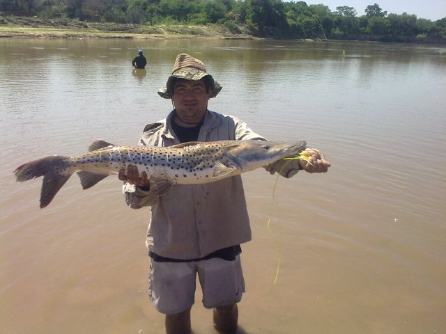 Pescando en el Río Bermejo, cerca de Orán.